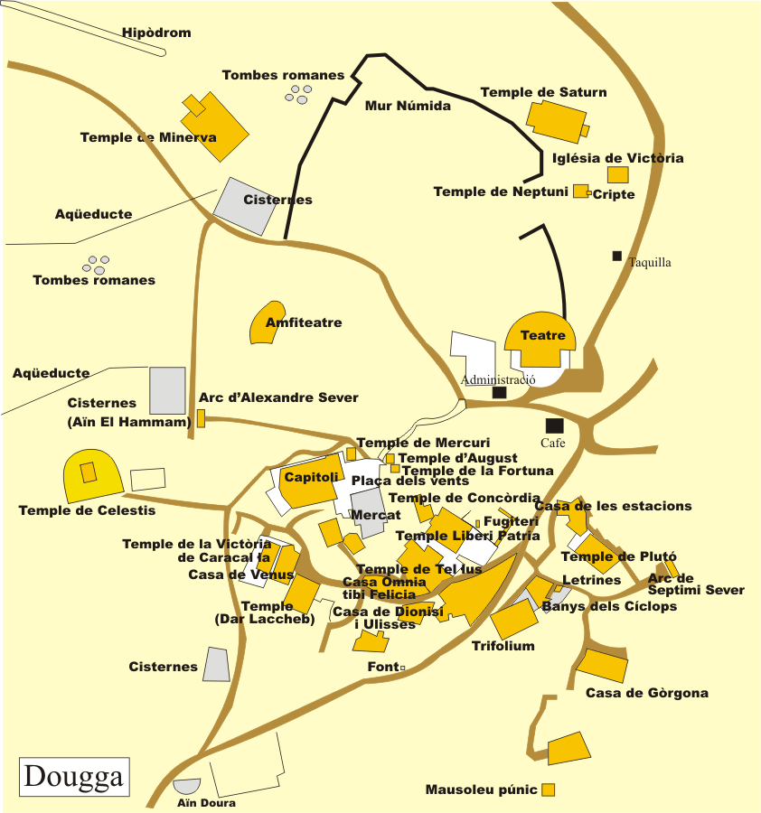 Map of Dougga